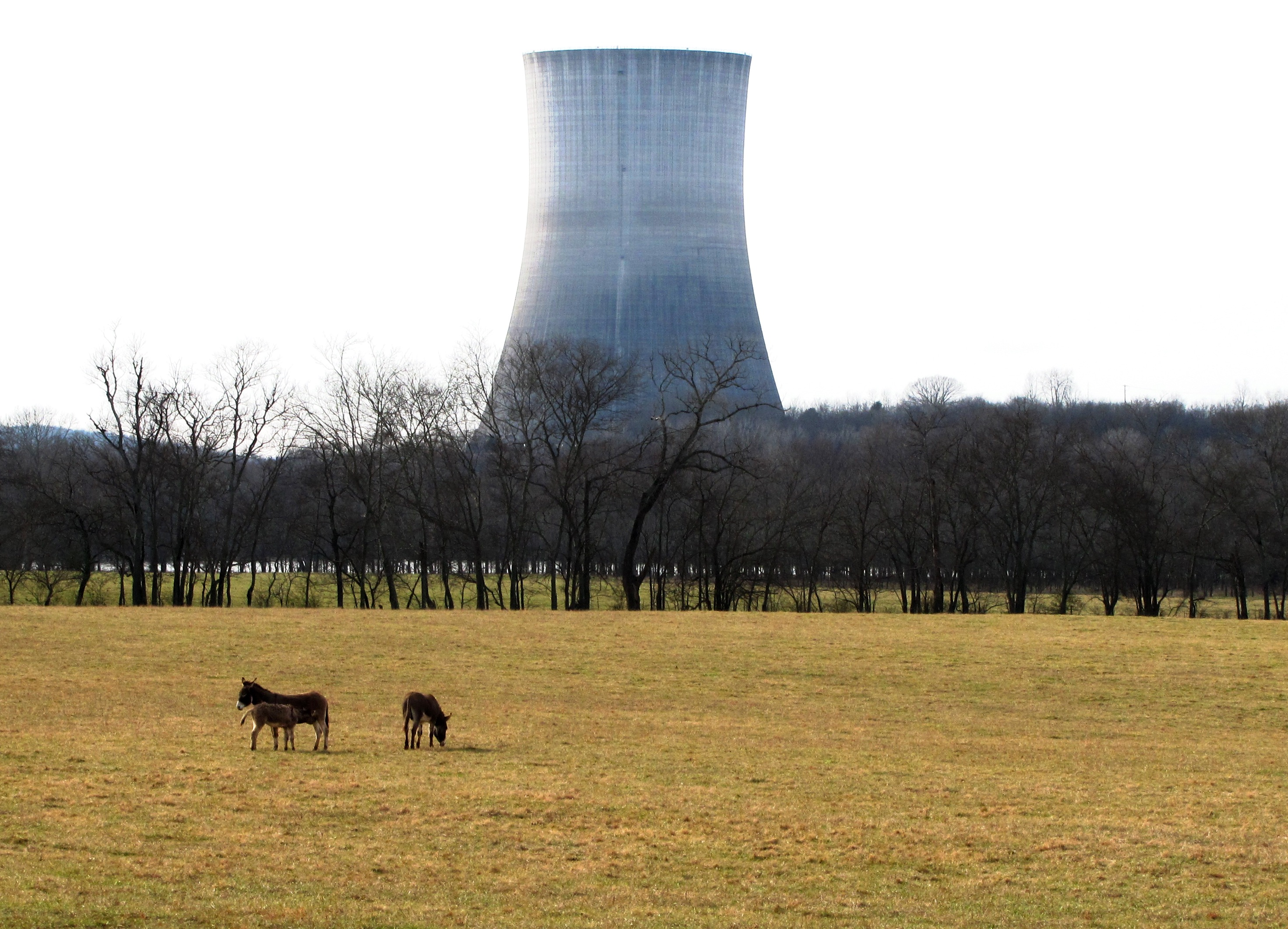 Cooling tower of the Hartsville Nuclear Plant, viewed from Dixon Springs, Tennessee, USA.